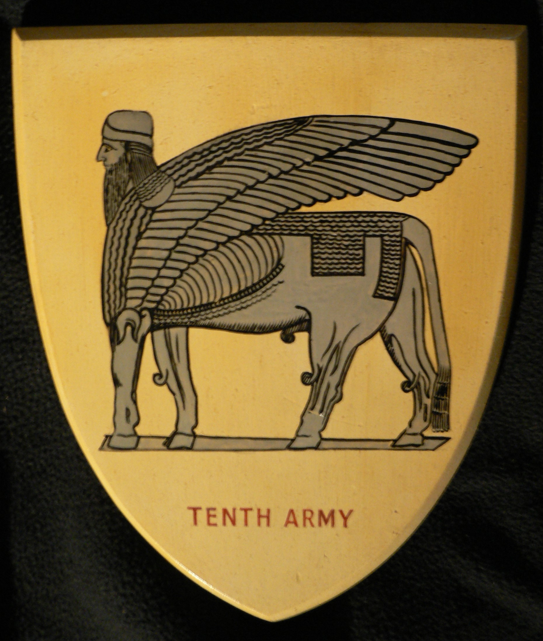 This is a photo of a wooden painted plaque of the British 10th Army insignia used in Iraq and Iran 1942-1943